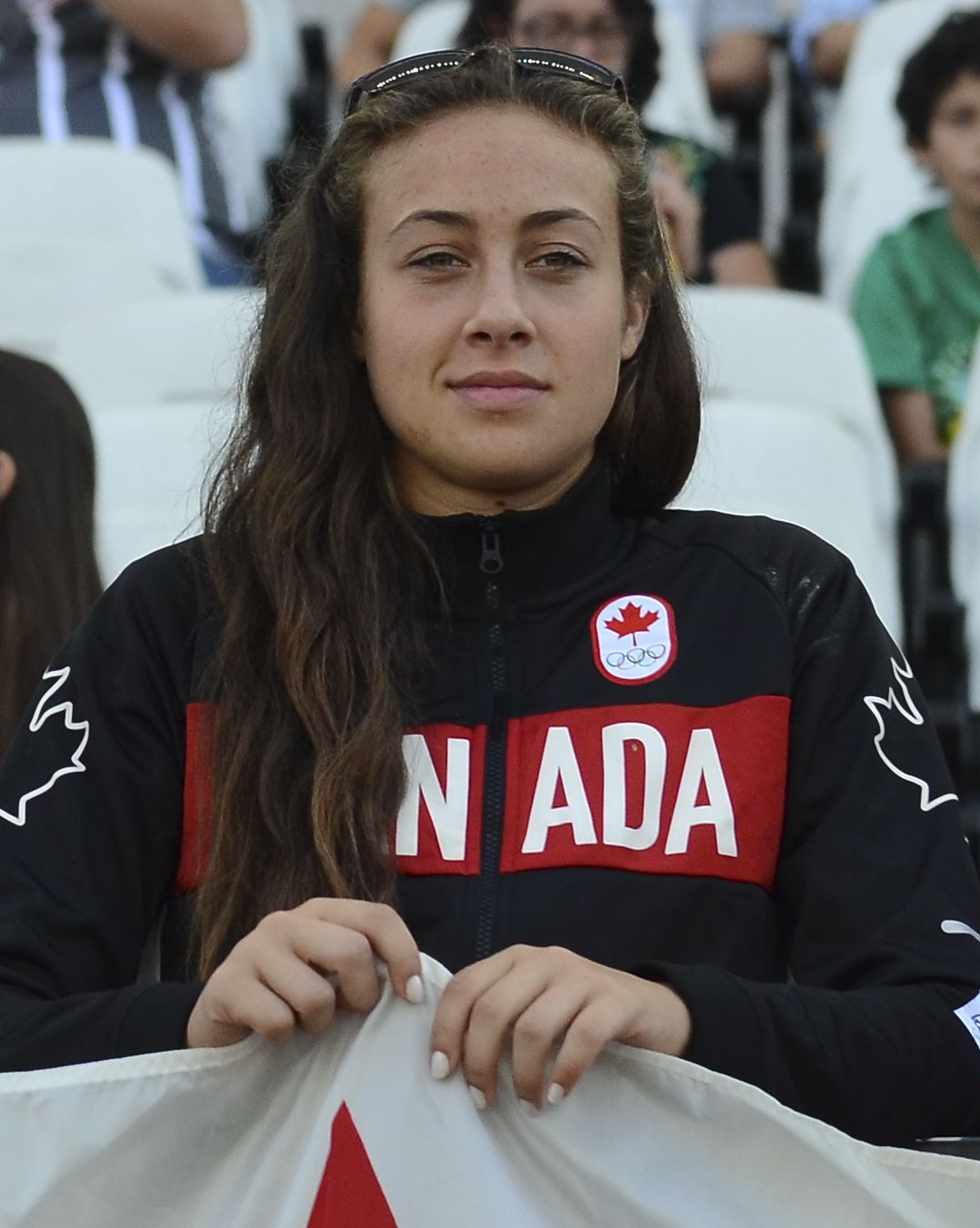 Canada wins Zimbabwe in Rio Olympics